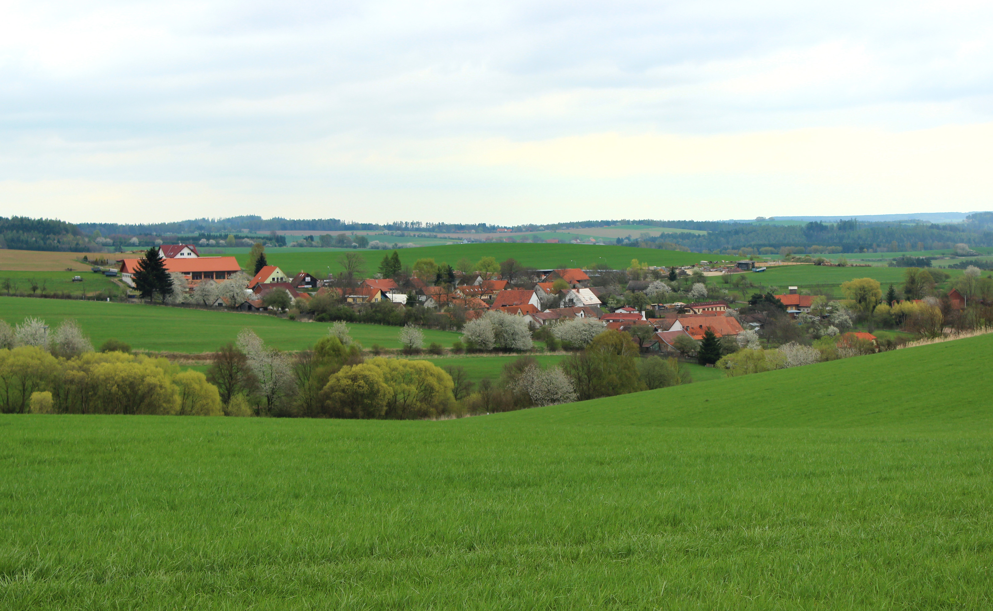 South view to Čakov, Czech Republic